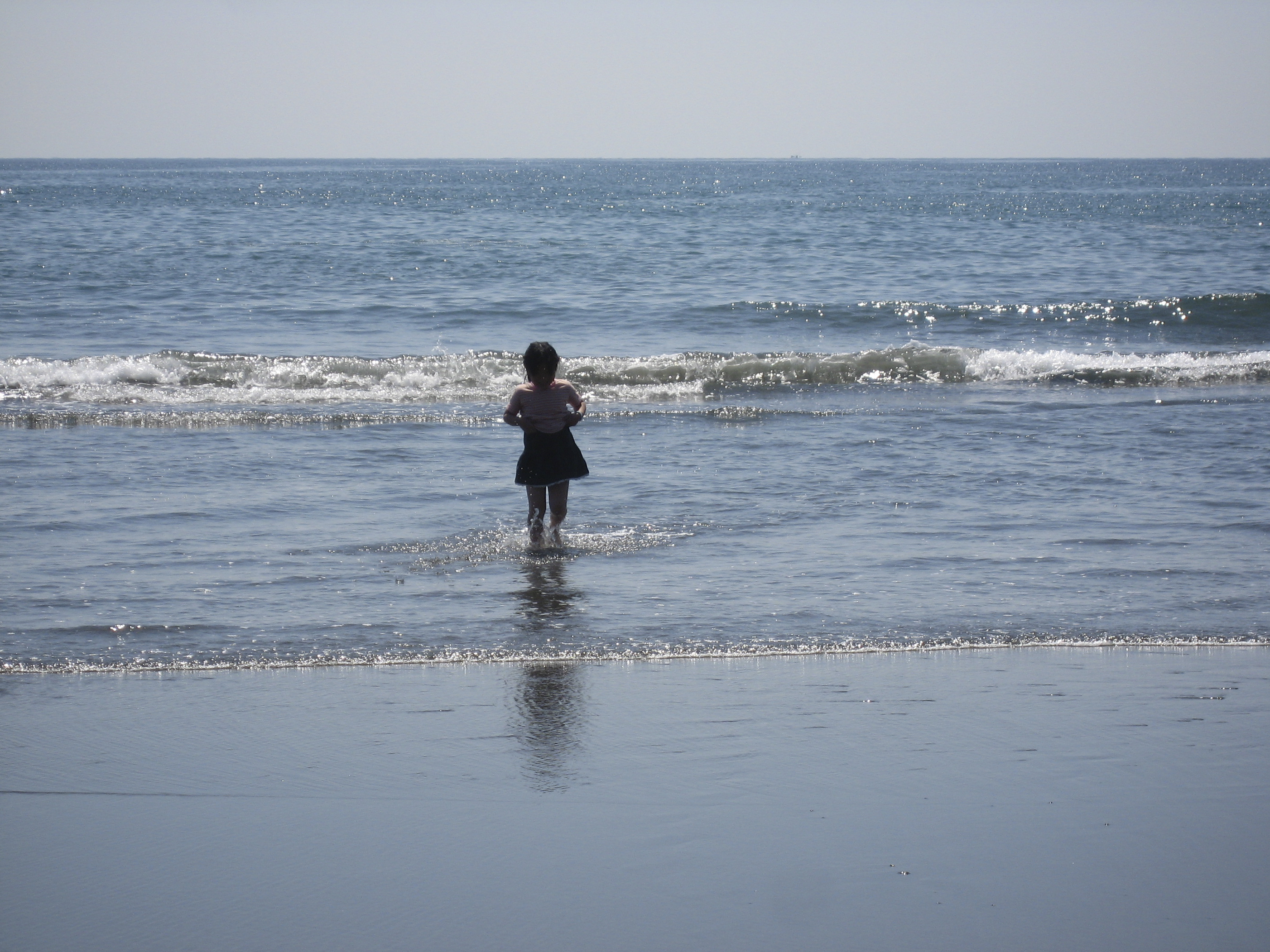 Shizunami Beach in Makinohara, Shizuoka, Japan. Canon IXY Digital 800 IS